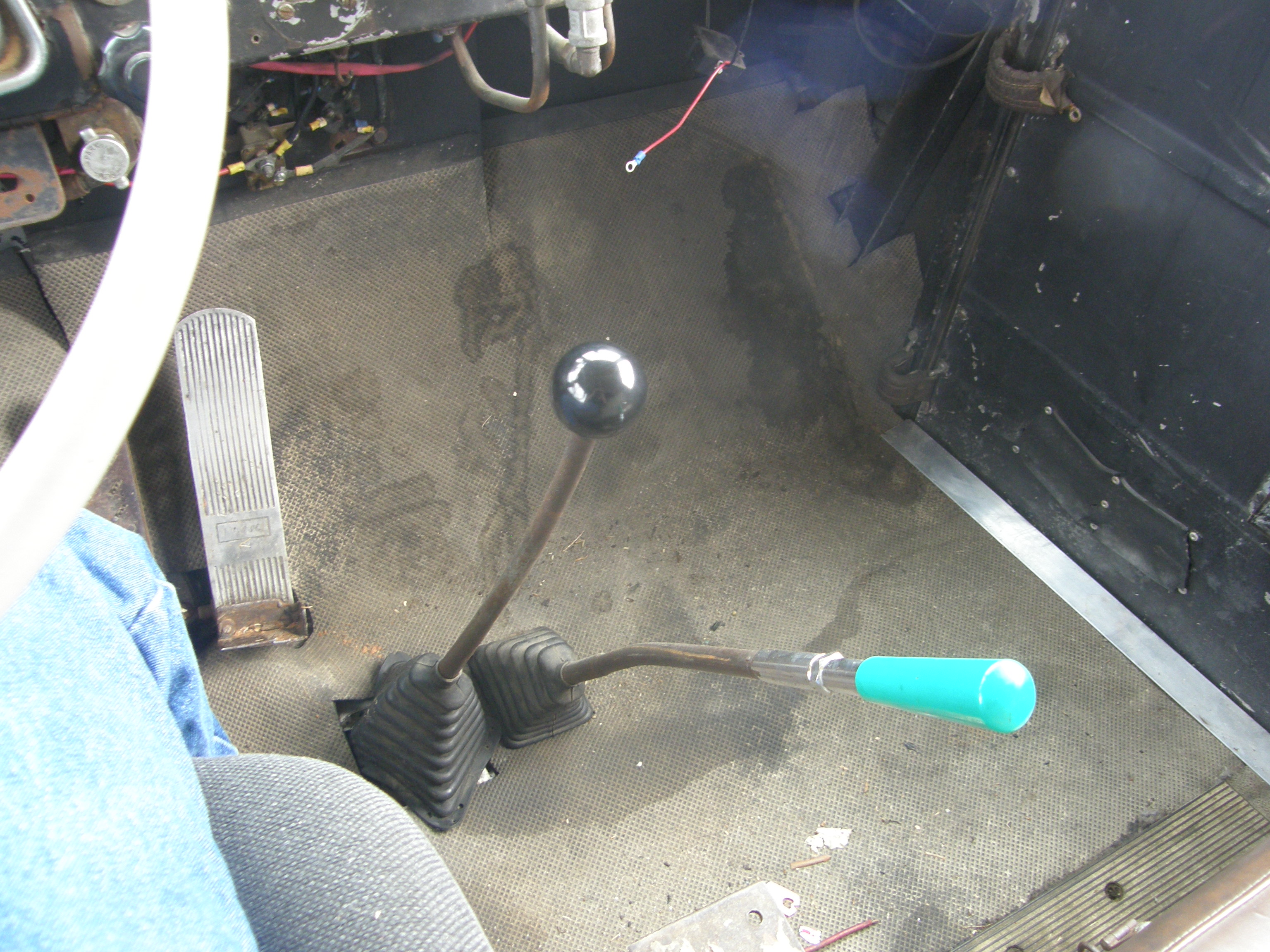 Photo of the twin stick transmission in the surviving "Duel" (1971) truck. Main has 5 gears, auxiliary has 3.